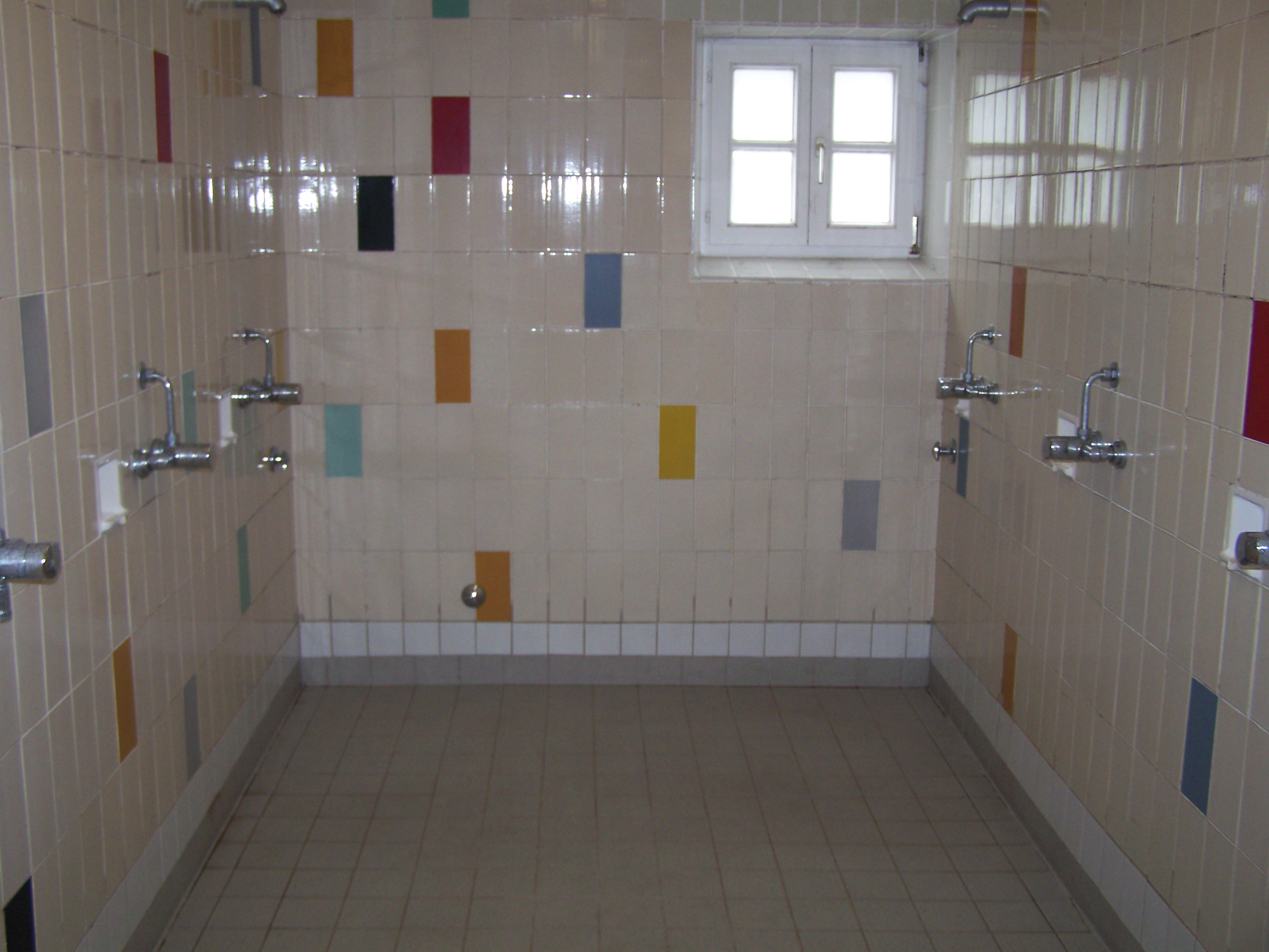 shower in the "Städtische Stadion an der Grünwalder Straße" in Munich